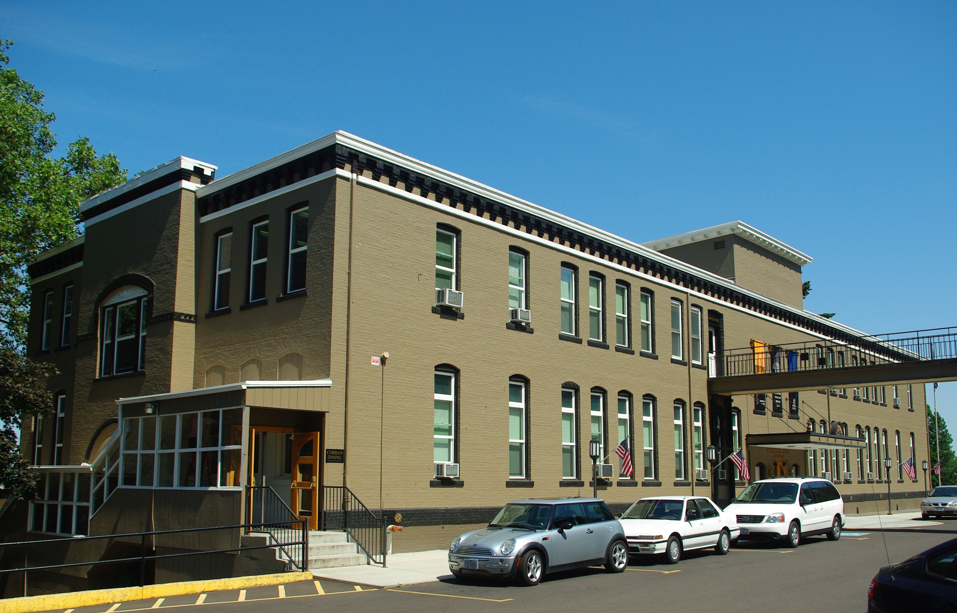 Schimmel Hall at Corban College in Salem, Oregon, USA. Admin and dining.